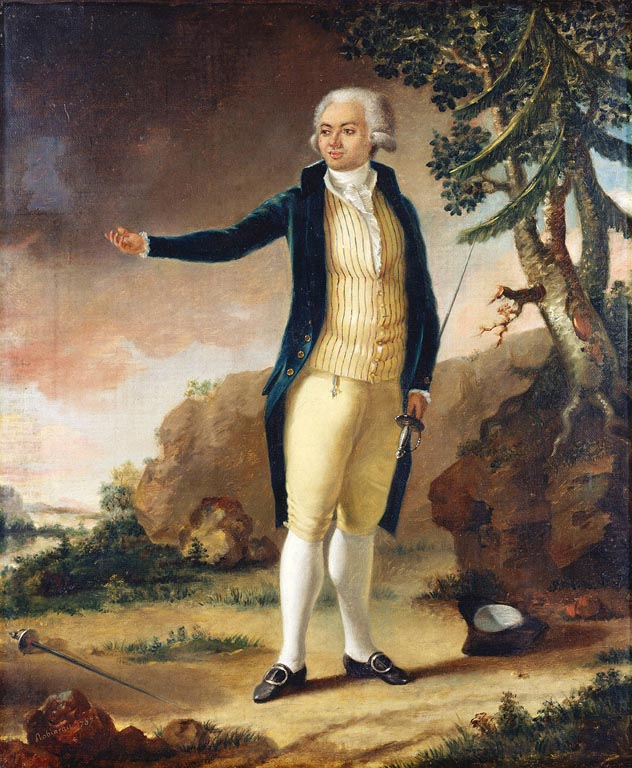 Robineau was a composer and violinist as well as artist; he used the name Alexandre for his musical and Auguste for his artistic activities. He was in London a great deal in the 1780s coming into contact with the Prince of Wales in both his professional capacities. The sitter was a celebrated fencer, who also appears in OM 1050, 400636. We see him here in what must be a position of challenge or triumph as he has cast his hat to the ground and an opponents sword lies waiting to be taken up or having just been cast down. The Chevalier is holding his sword in his left hand, his right arm is outstretched as if to beckon another challenger. He wears a blue coat over a striped yellow waistcoat and breeches. Signed and dated: Robineau 1787